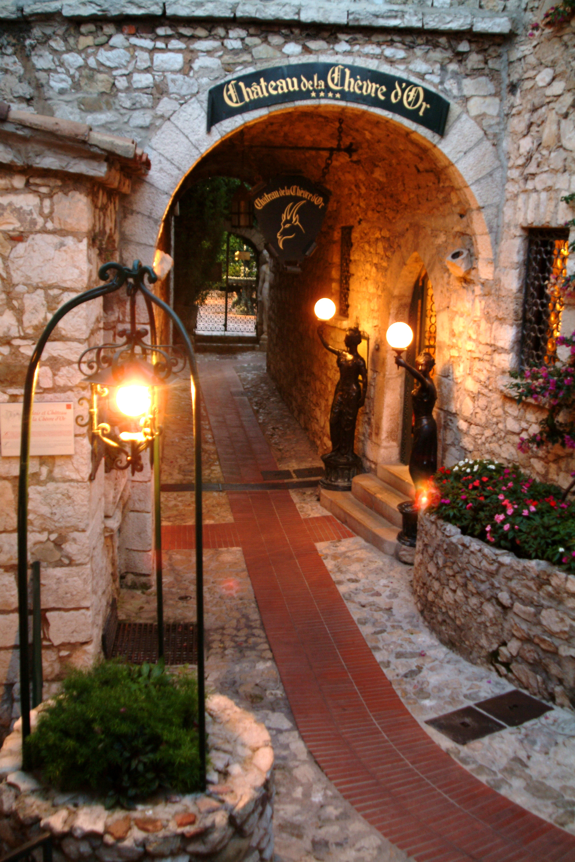 photochevredor